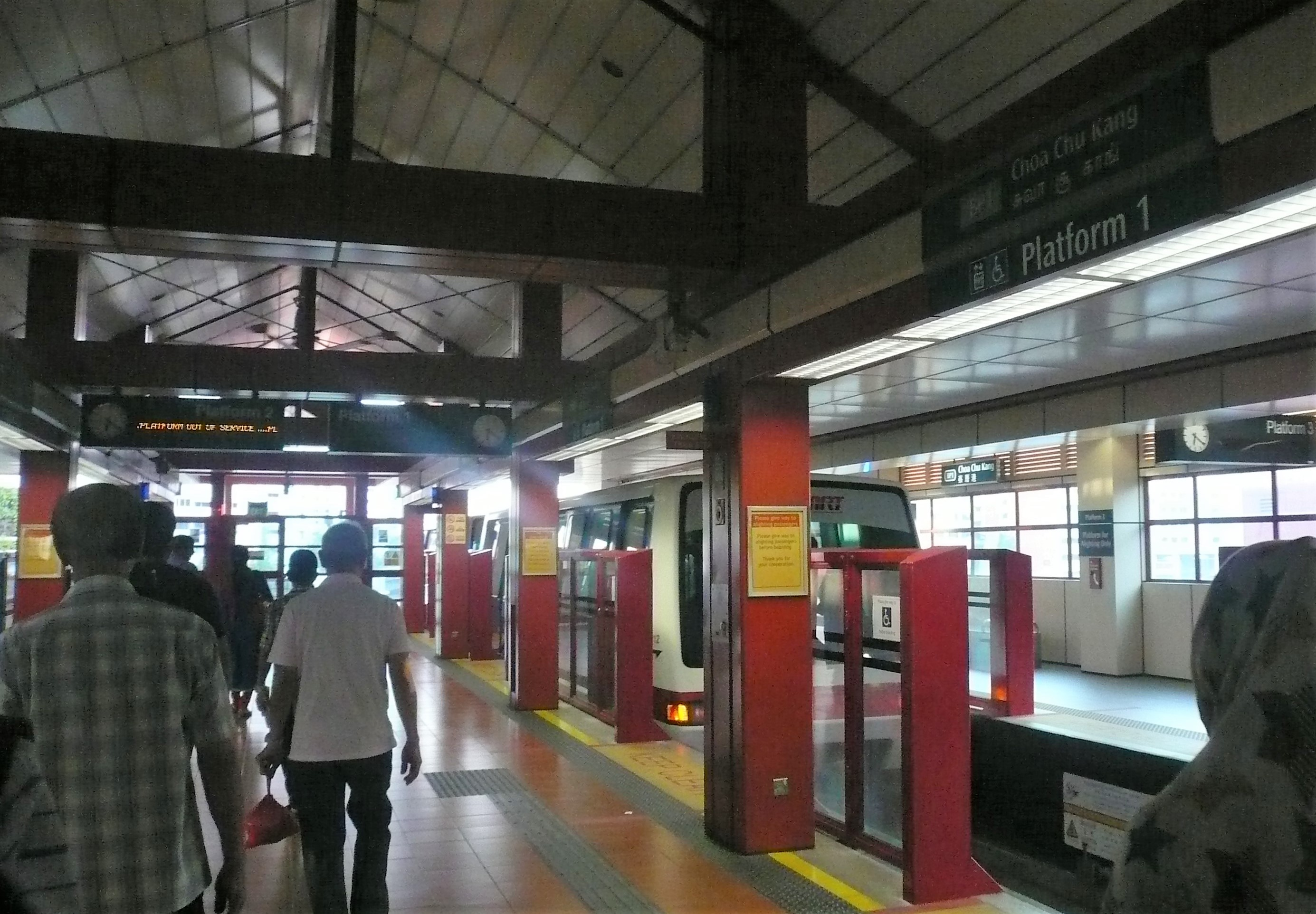 Bukit Panjang LRT platform at Choa Chu Kang station.